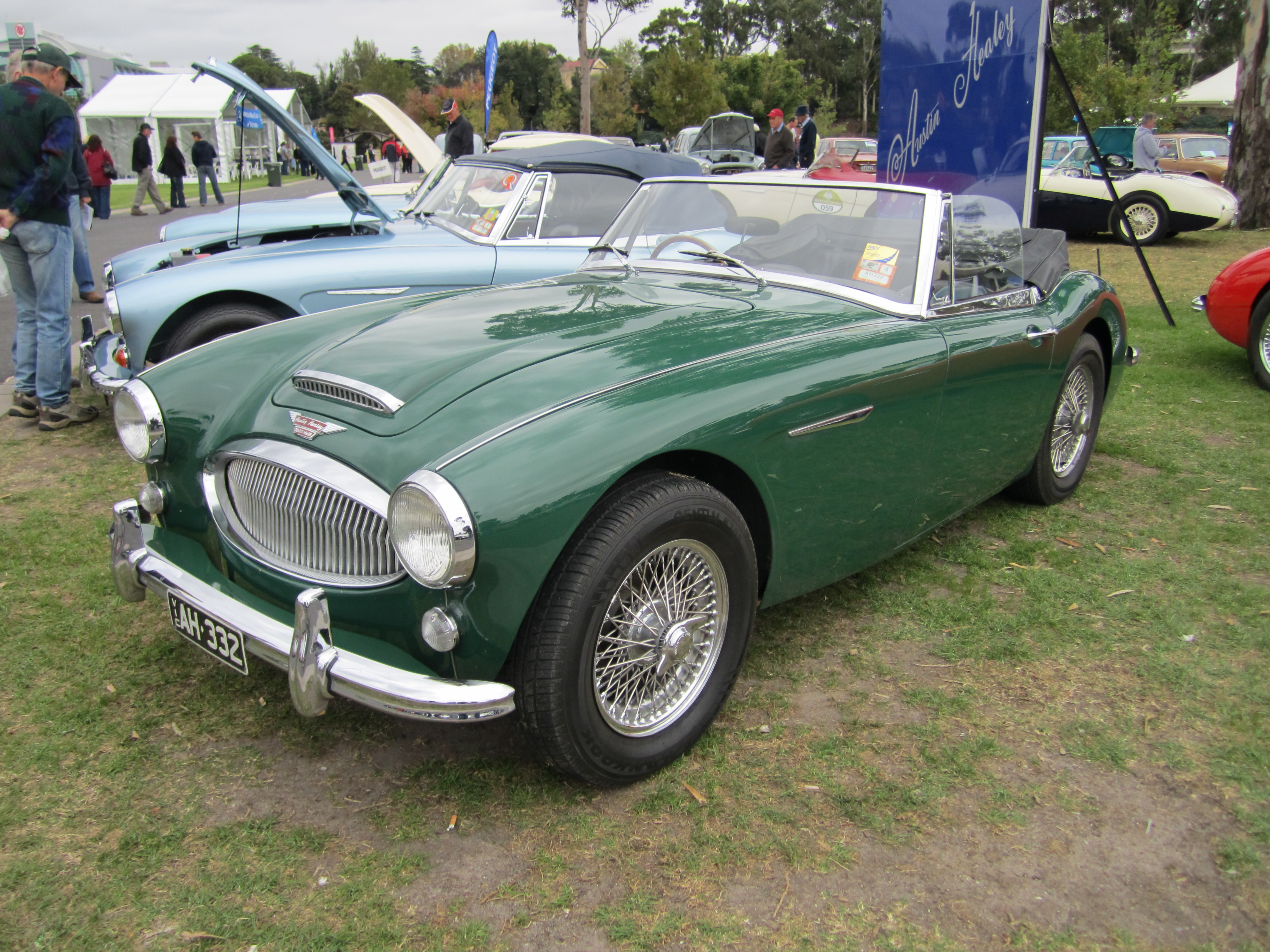 Built from 1963-67,Mk III only available in 2+2, Engine 2912cc 6cyl